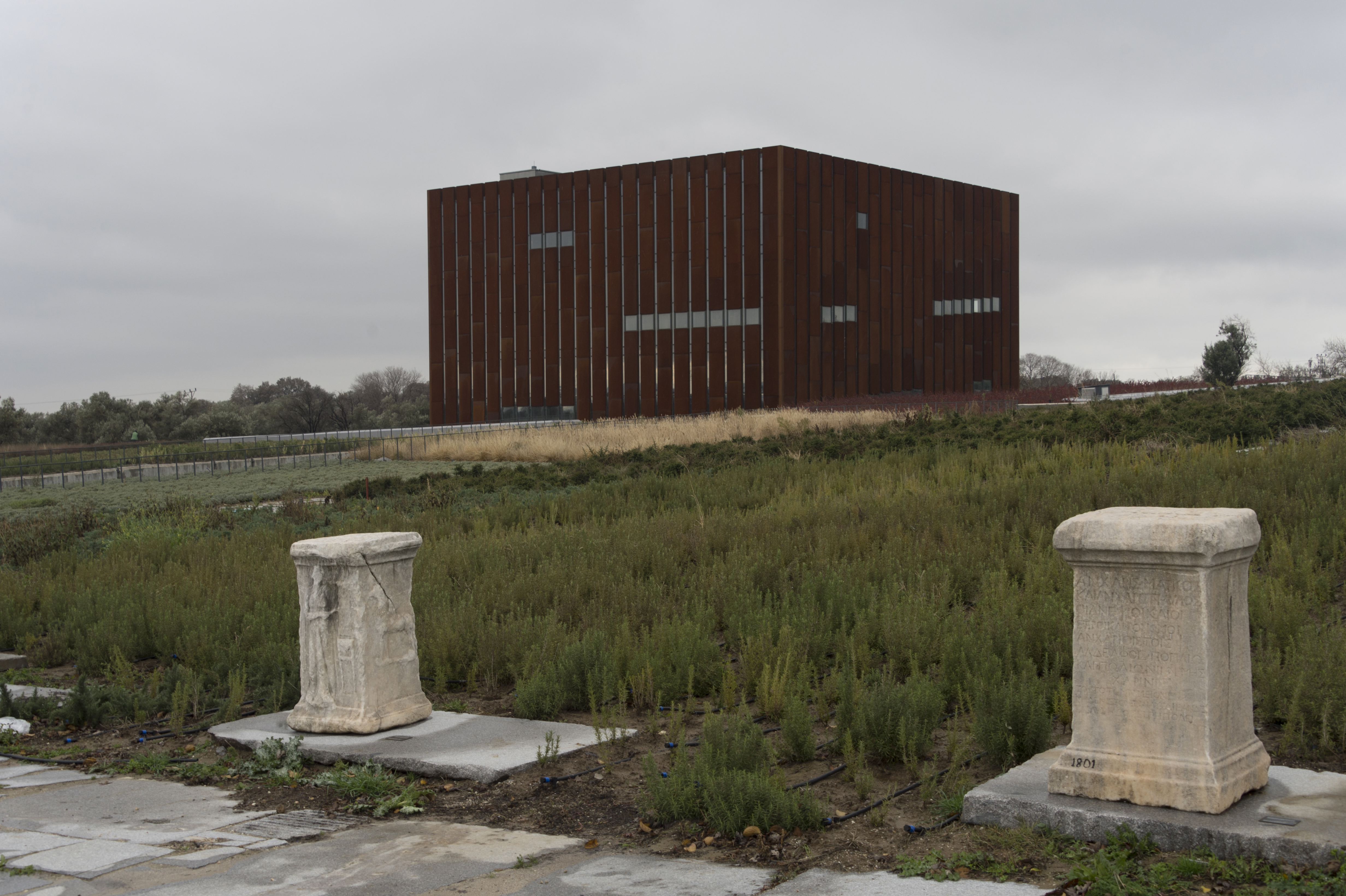 The Troy Museum is essentially a box. On the web I found: "a weathering-steel-clad archaeological museum in northwest Turkey, which is dedicated to the history of the city of Troy. Located 800 metres from the site of the ancient city, the orange-coloured museum was designed by Turkish architecture studio Yalin Mimarlik to resemble an "excavated artefact". It takes the form of a cube clad in weathering steel called Corten, which extends down below the ground into a vast subterranean level."